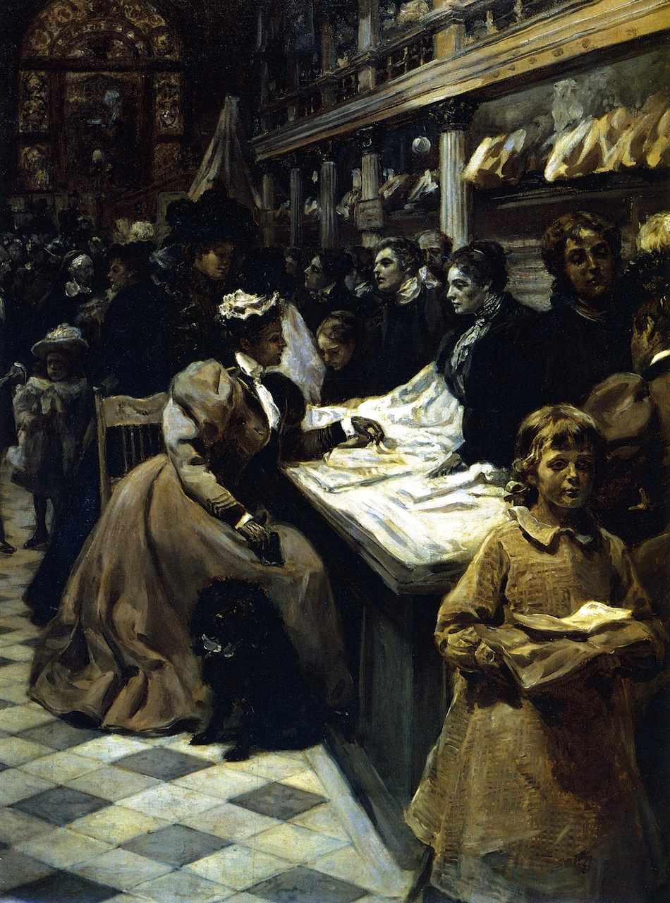 The Women Business Alice Barber Stephens - 1897 Brandywine River Museum - Chadds Ford, PA (United States) Painting - oil on canvas Height: 63.5 cm (25 in.), Width: 45.72 cm (18 in.)